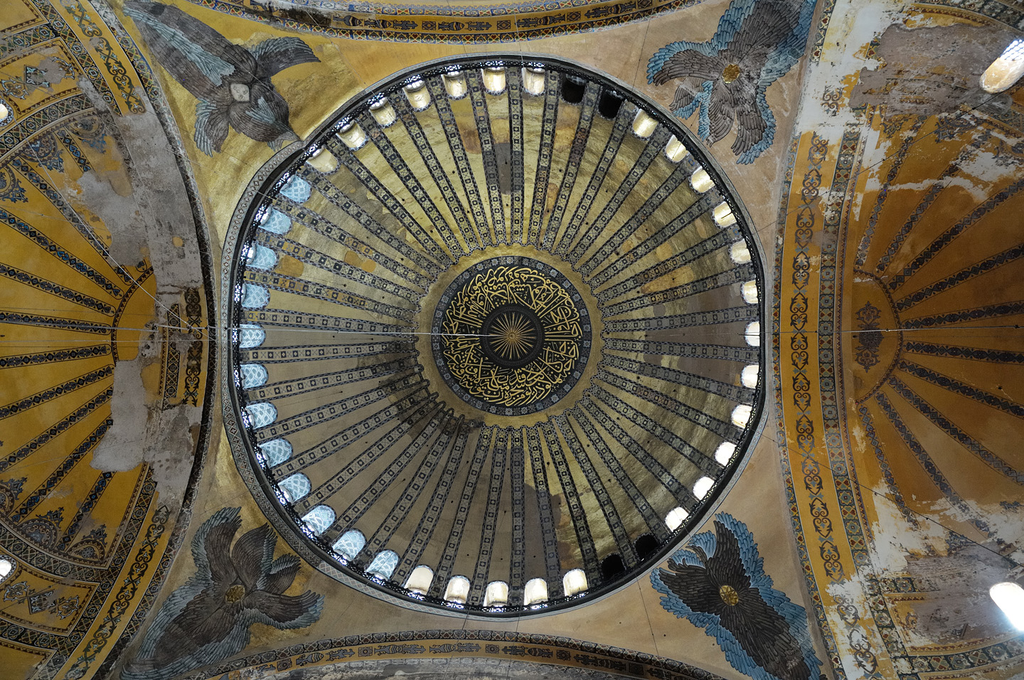 View of the Hagia Sophia Dome.